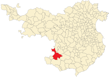 Sant Hilari Sacalm